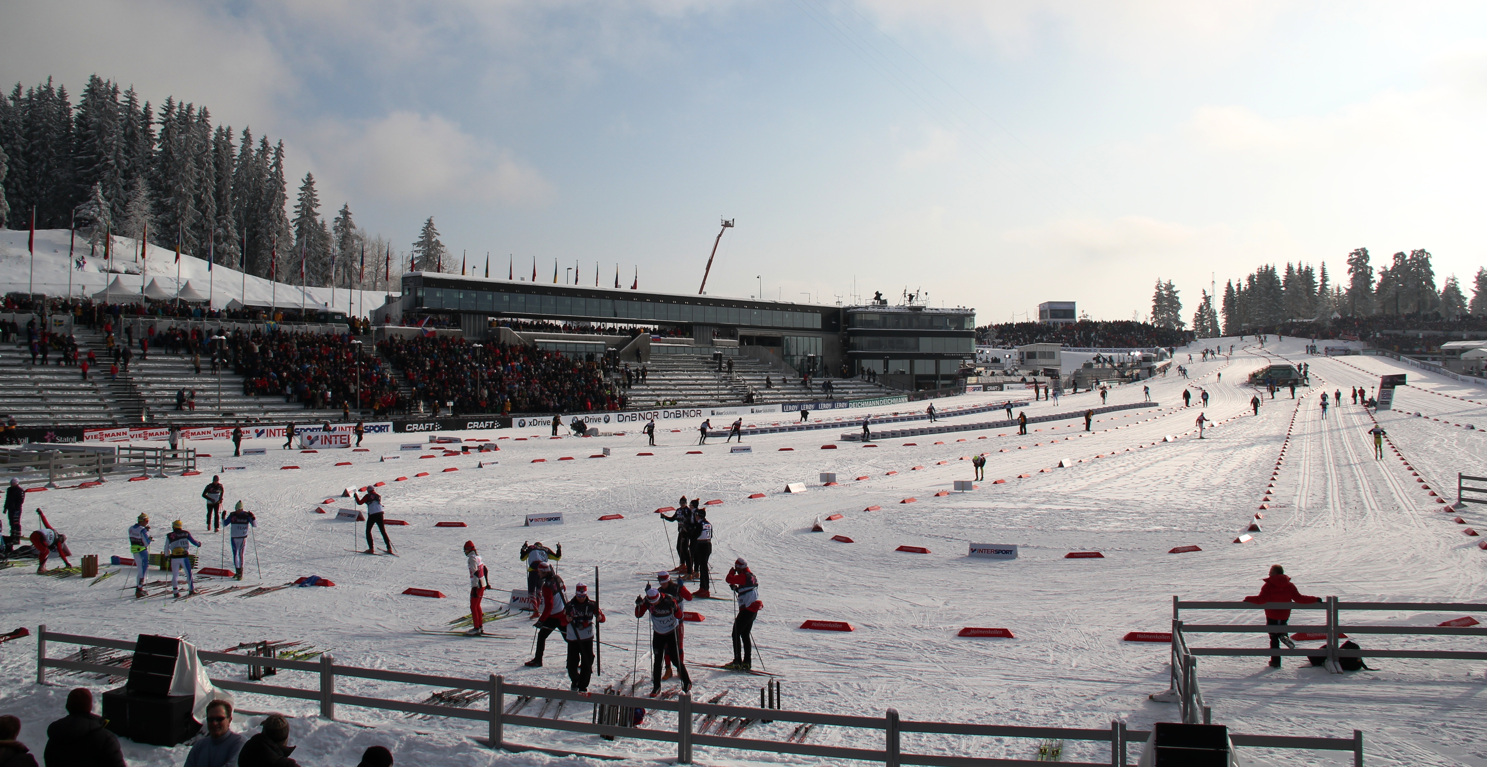 The cross country skiing stadium at FIS Nordic World Ski Championships in Holmenkollen Oslo